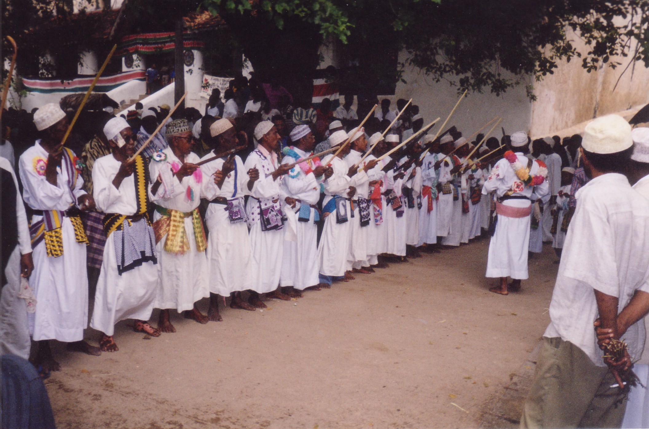 Political Parade in Lamu, taken by Kevin Borland, July 2001.